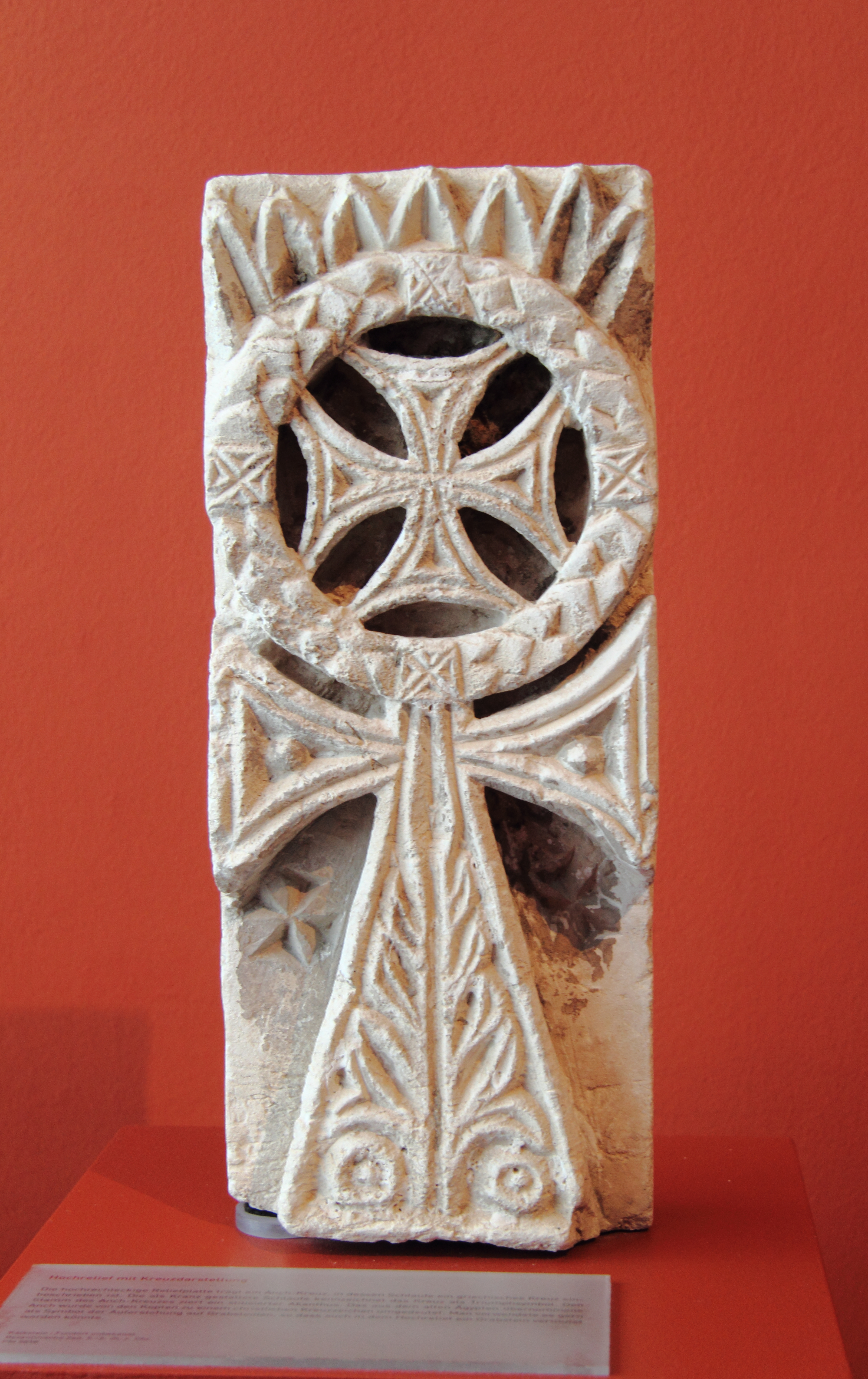 Roemer- und Pelizaeus-Museum Hildesheim, Germany: Coptic relief plate showing a cross, limestone, Byzantine Period, 5th – 6th century AD